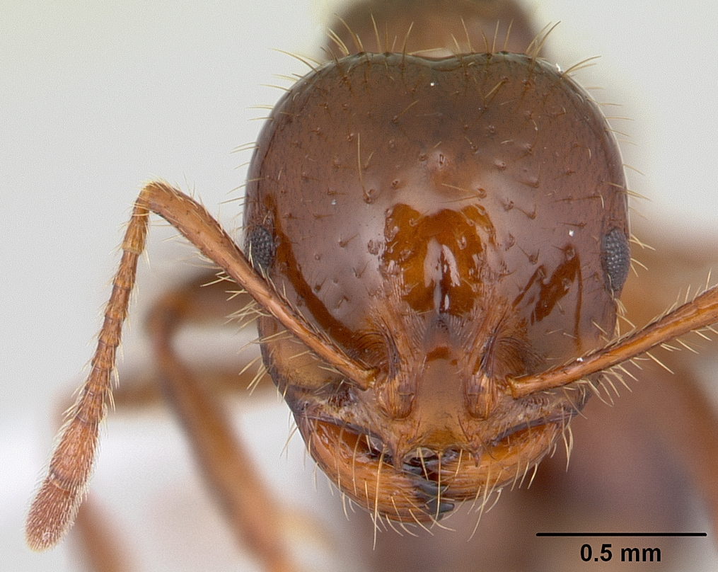 Head view of ant Solenopsis invicta specimen casent0178134.